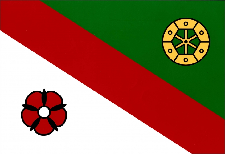 Flag of Nezdice, Plzeň-South District